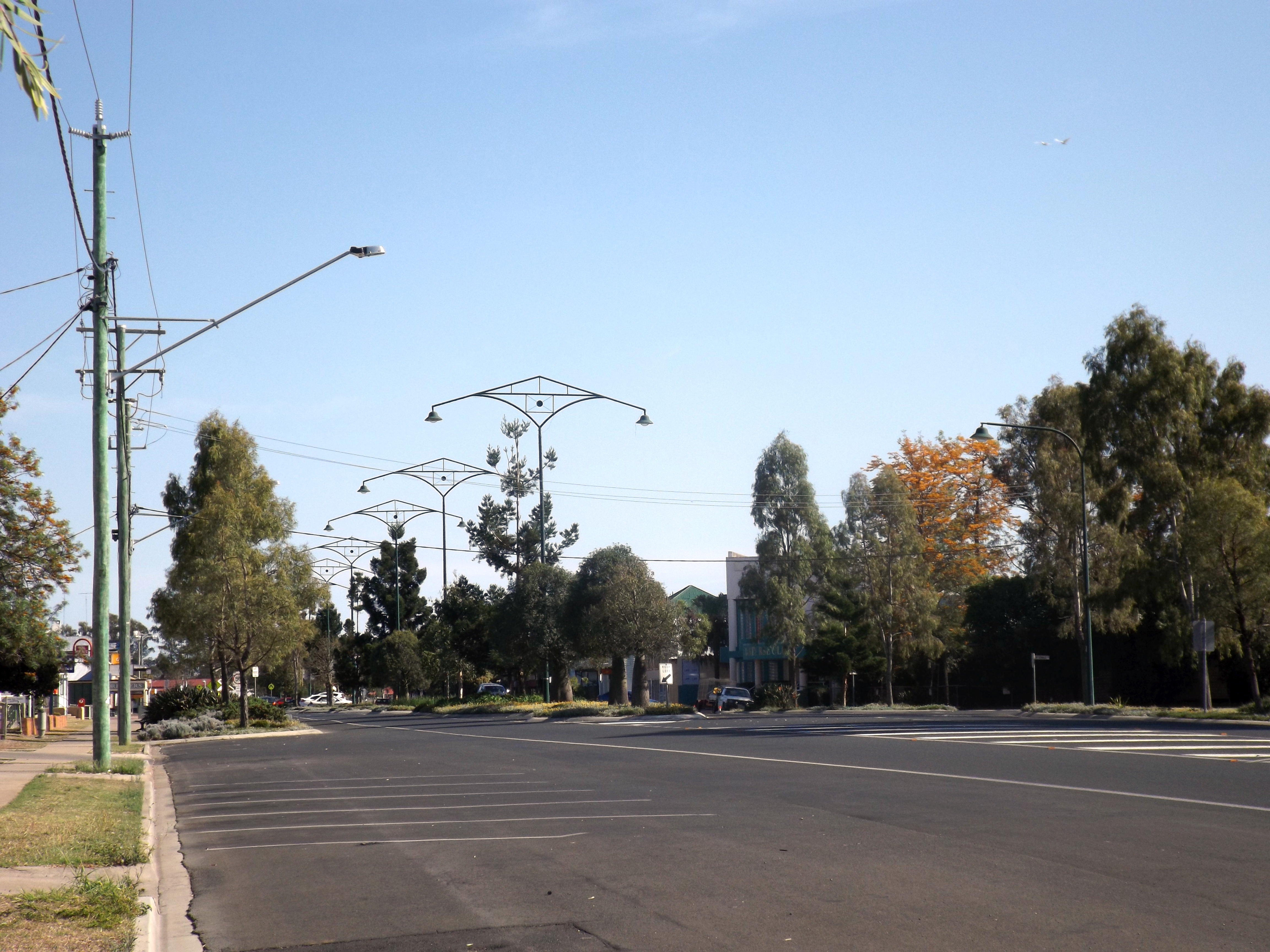 Photo of Campbell Street in Oakey, Queensland, Australia.